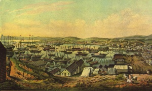 San Francisco Harbor, April 1850. Originally published in 1850, by the U.S. Surveying Expedition. Copyright has expired. Image has been cropped and altered slightly for better on-line viewing.